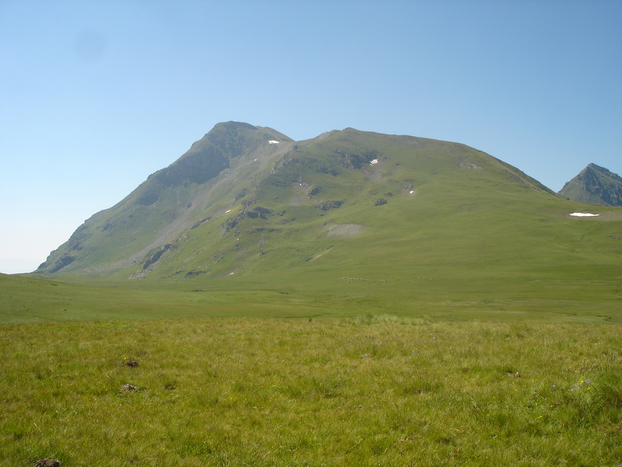 Golema Vraca peak on Šar Mountain, Macedonia